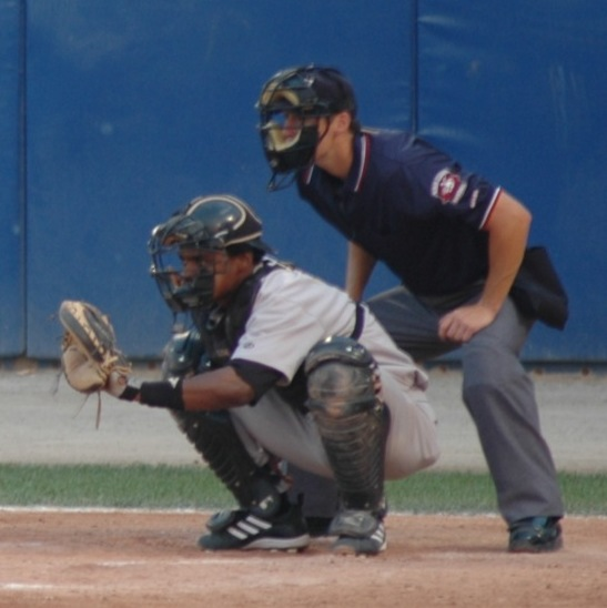 Reid Brignac of the Southwest Michigan Devil Rays bats against the South Bend Silver Hawks while Wilkin Castillo catches in September 2005.